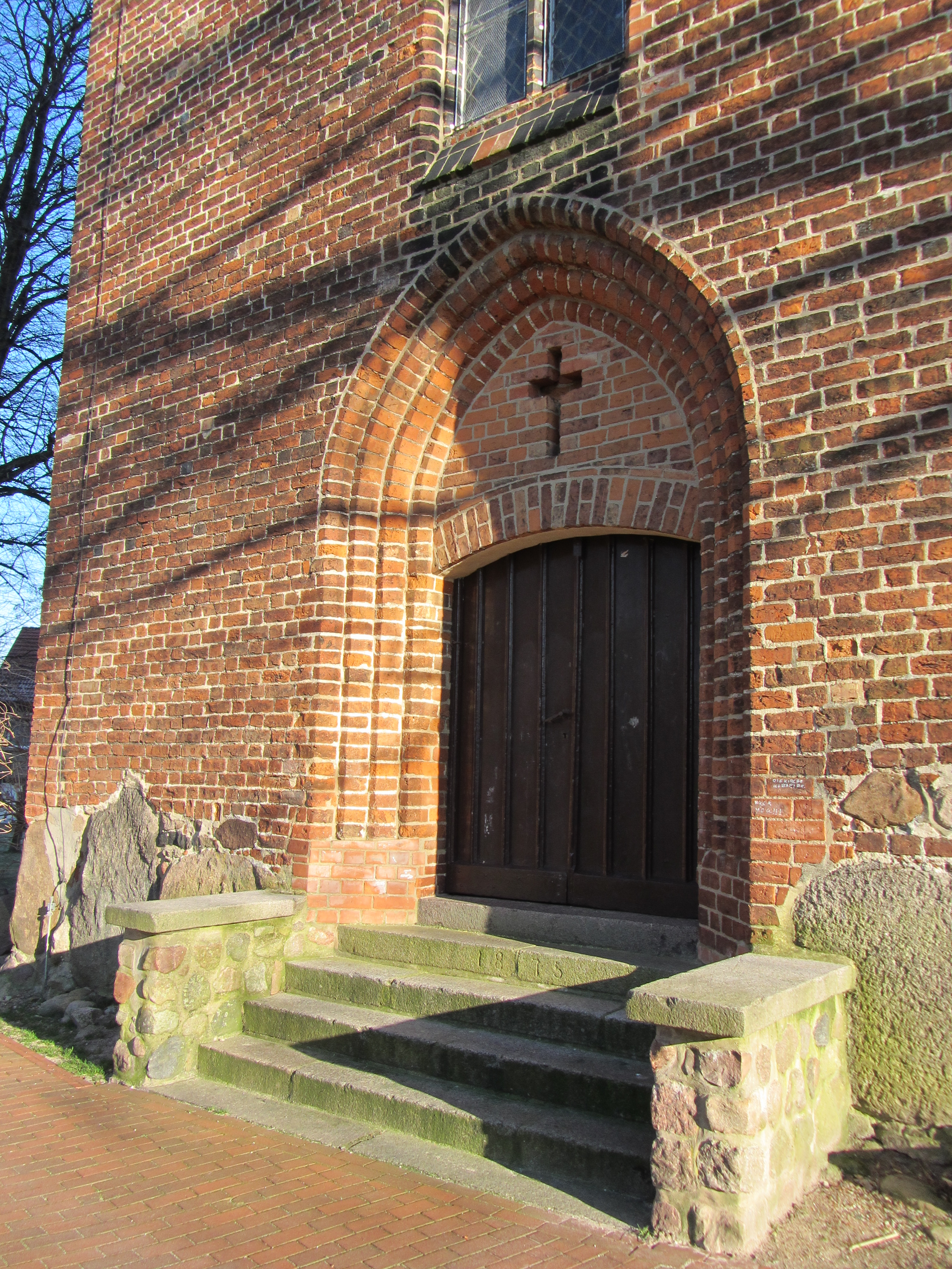 Church in Neubukow, district Rostock, Mecklenburg-Vorpommern, Germany